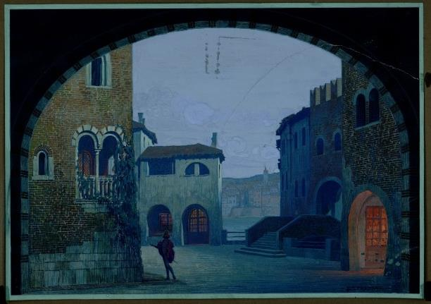 Scene scetches by Pietro Stroppa for the first production of Zandonais opera Giulietta e Romeo, Milan 1922 - 1. Una piazzetta in Verona